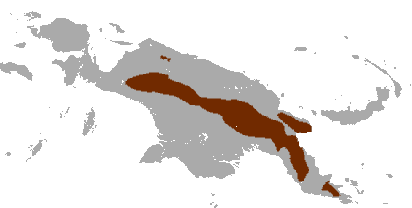 Eastern Long-beaked Echidna (Zaglossus bartoni) rang